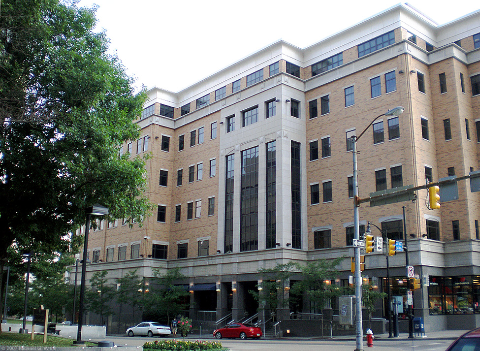 Sennott Square at the University of Pittsburgh. photo by Michael G White